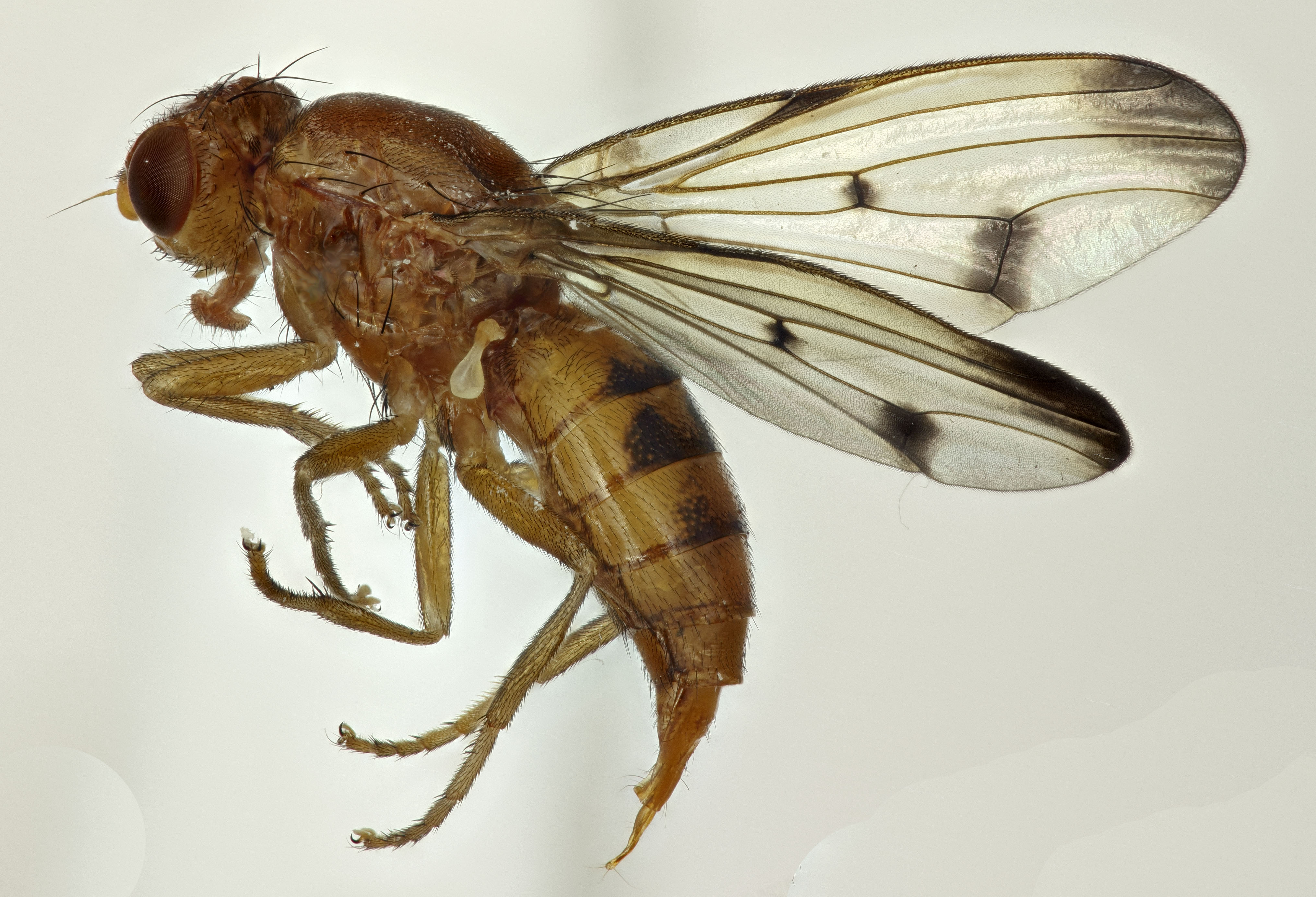 This distinctive fly is sometimes called the Nest Skipper Fly. The larvae are parasites of birds, sucking the blood of nestlings. It has been found in nests of various birds, e.g. Greenfinches, Chaffinches, Linnets, Thrushes and Blackbirds. The name Skipper refers to the ability of the maggots to jump or skip several cm by bending then suddenly straightening. I found this specimen in my conservatory. ID confirmed by Tony Irwin, There are currently no records for this species on the NBN Gateway for East Suffolk and only one in the whole of the county. The details of this record are: Neottiophilum praeustum (female) Ipswich, East Suffolk TM16644502 29-Apr-2014 indoors Found by Martin Cooper Determined by Tony Irwin